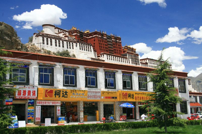 Shops under the Potala Palace in Lhasa, Tibet Autonomous region, China